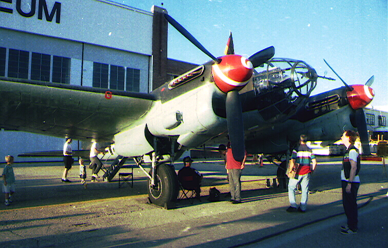 CASA 2.111 (license-built Heinkel He 111) bomber on museum display.